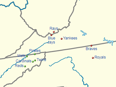 Appalachian League team locations for the 2017 season.